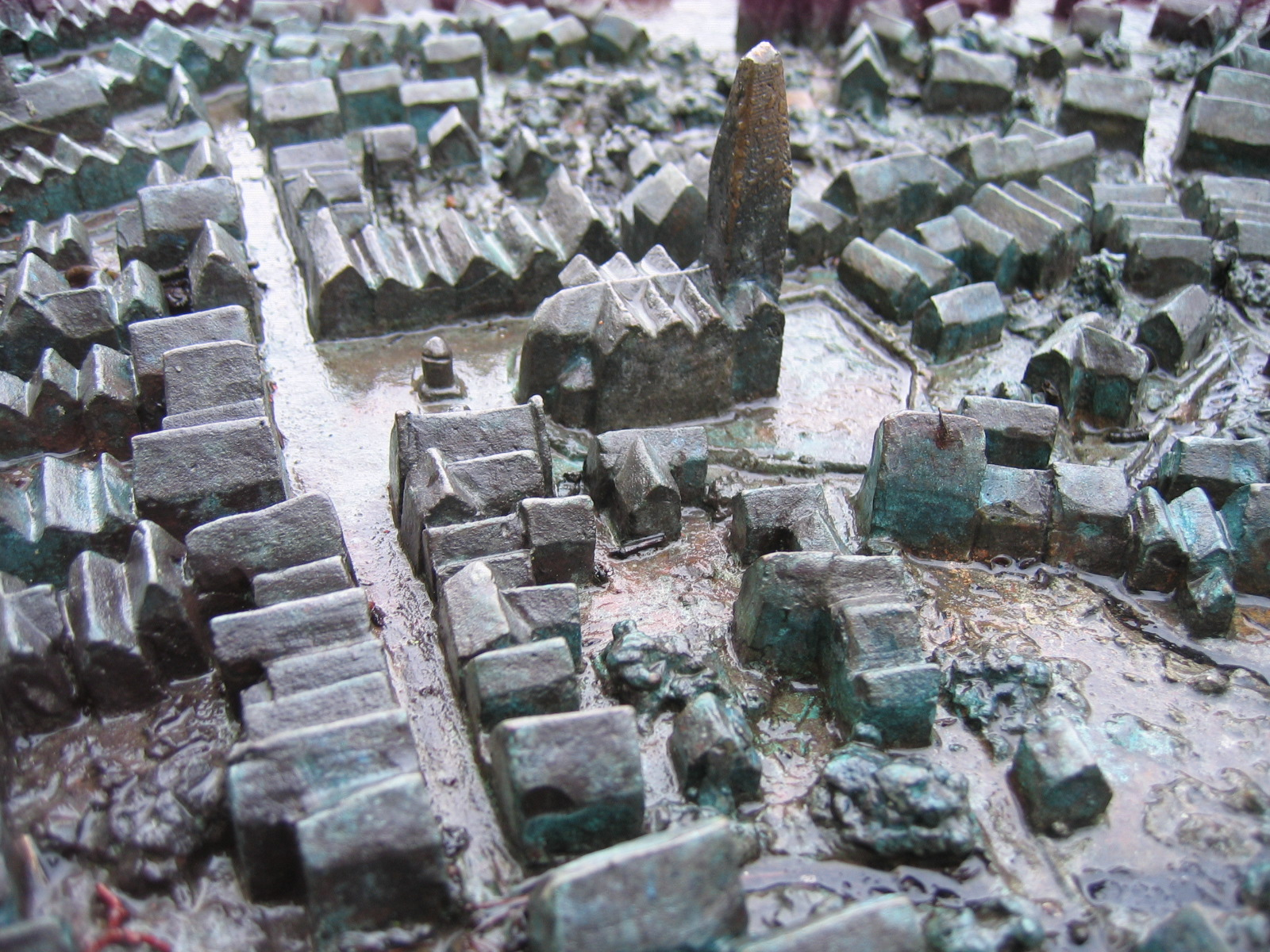 in Herford, District of Herford, North Rhine-Westphalia, Germany.